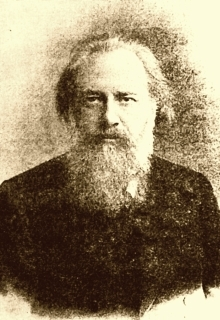 Portrait of Dmitry Ivanovich Litvinov (1854-1929), Russian botanist